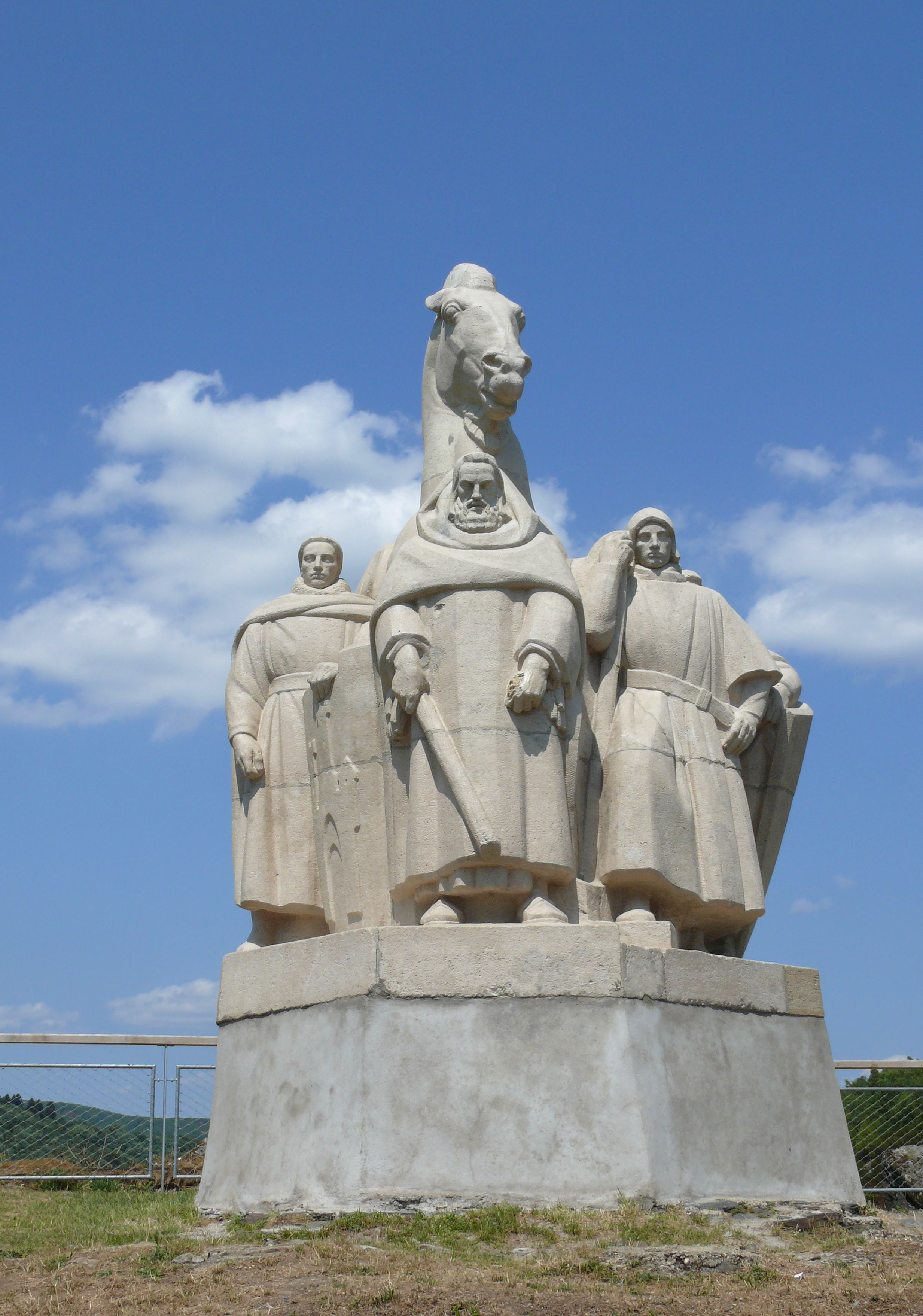 Monument for the Four Sons of Aymon and Steed Bayard at Bogny sur Meuse.